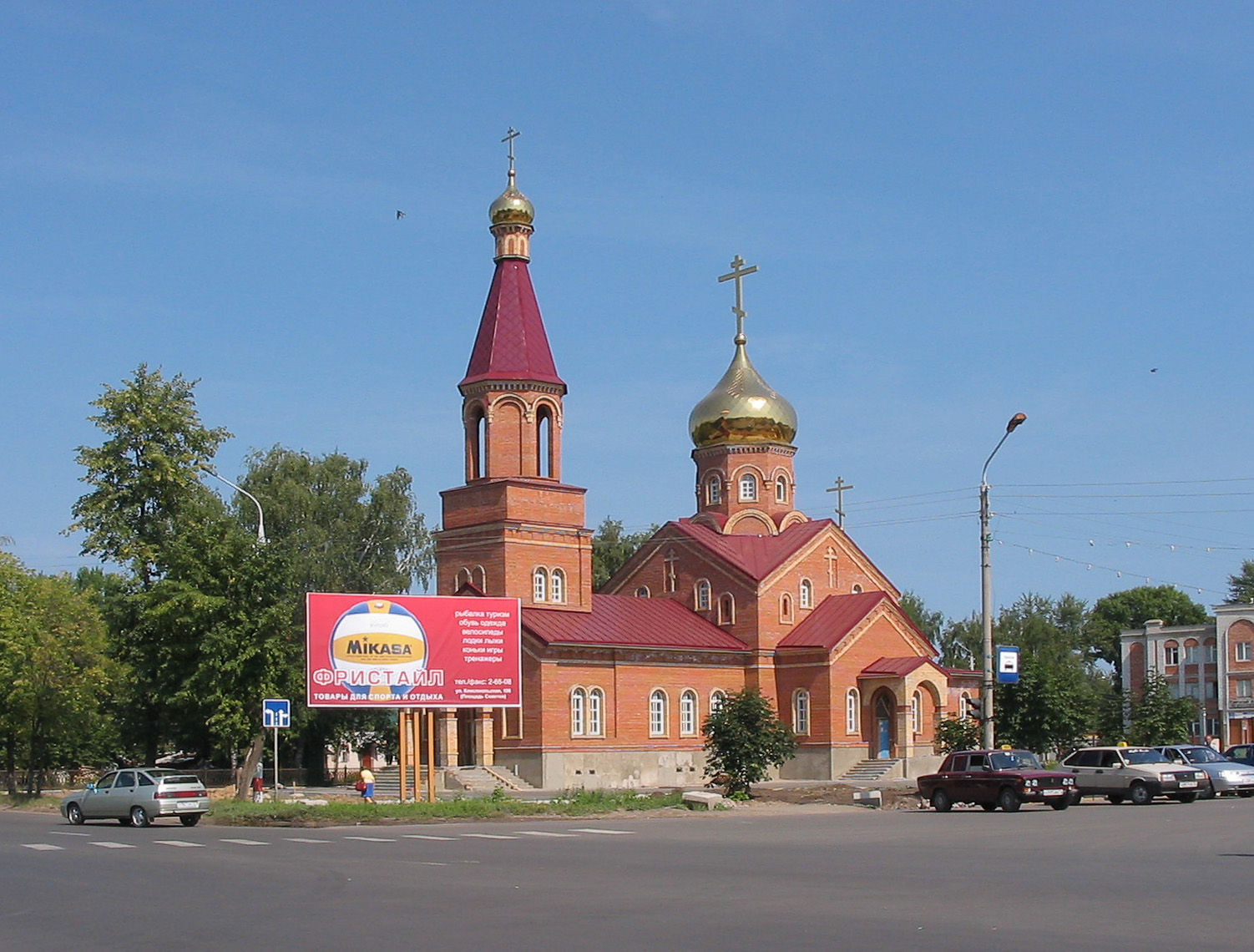 Dimitrovgrad (Russia), unknown Church in Old part of Town, XXI c